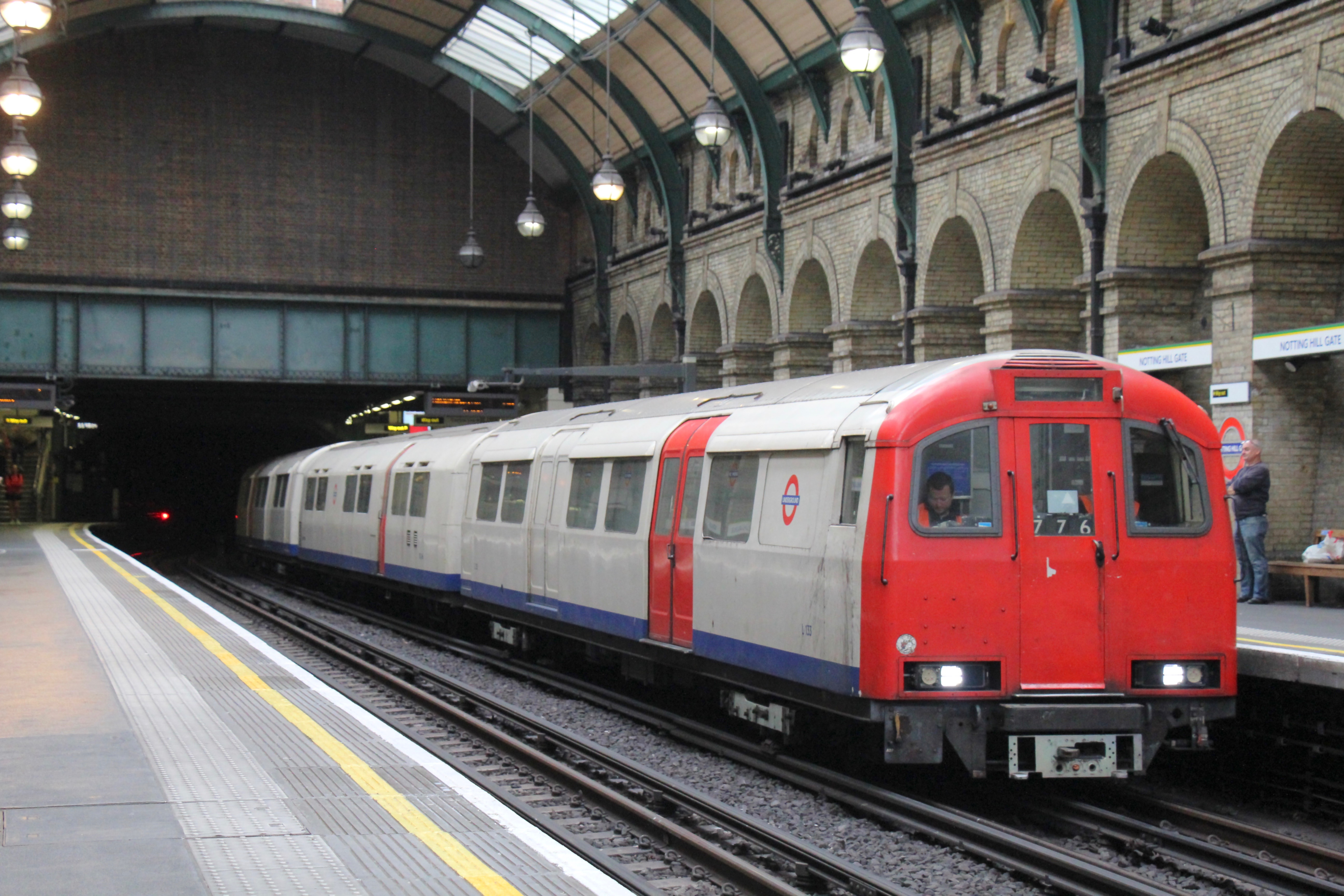 London Underground Track Recording Train passing Notting Hill Gate